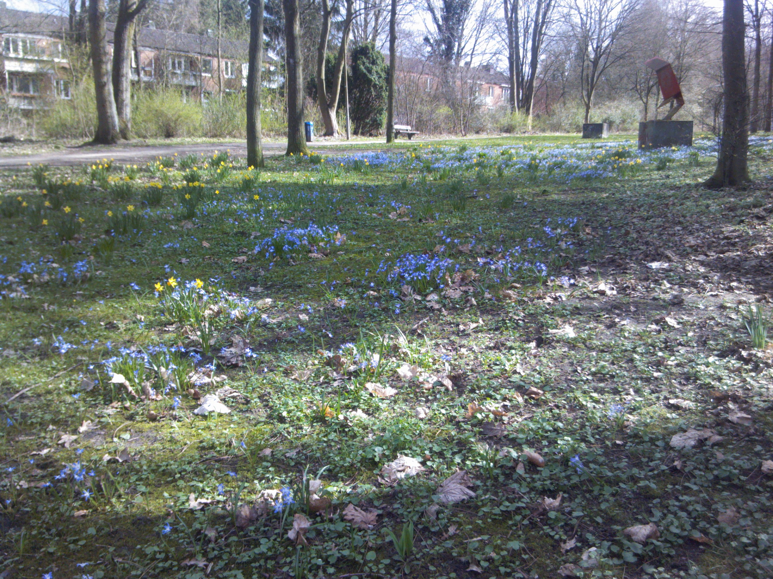 Frühjahr 2013